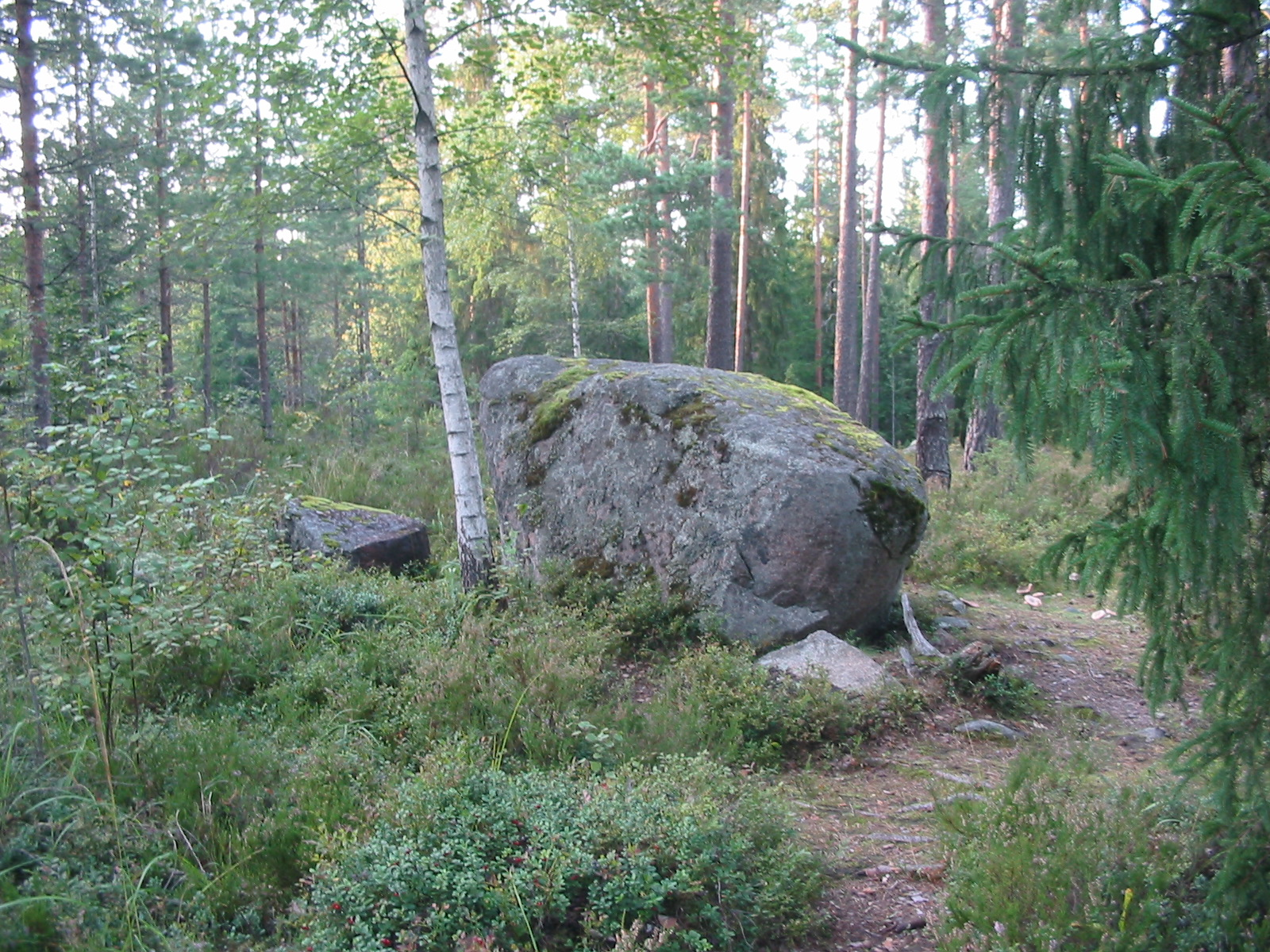 Palsankallio Boundary stone in Renko, Hämeenlinna, Finland